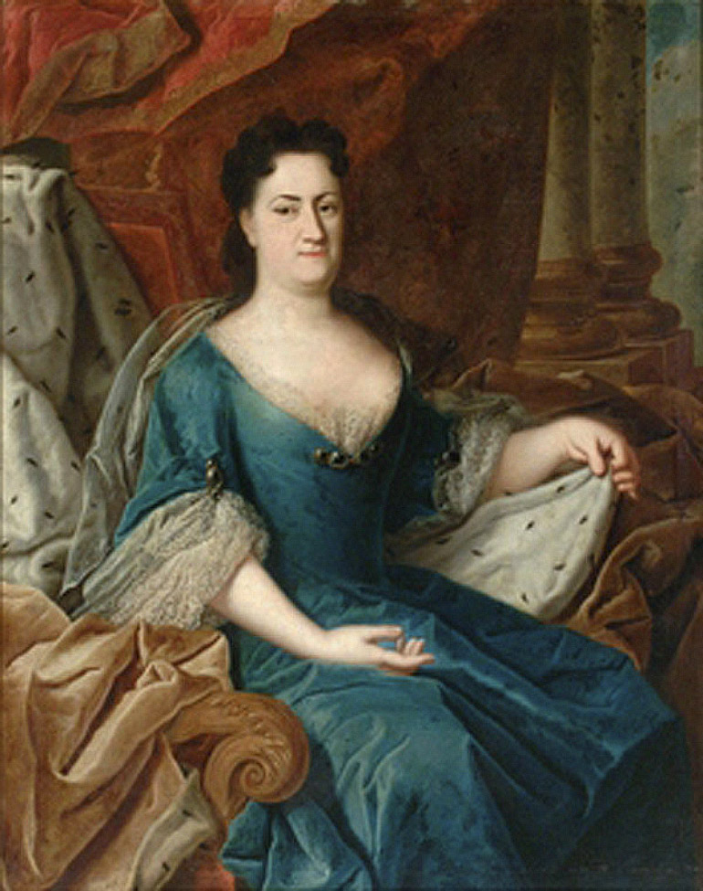 Ehrengard Melusine von der Schulenburg (1667-1743), duchess of Kendal and mistress of King George I of Great Britain